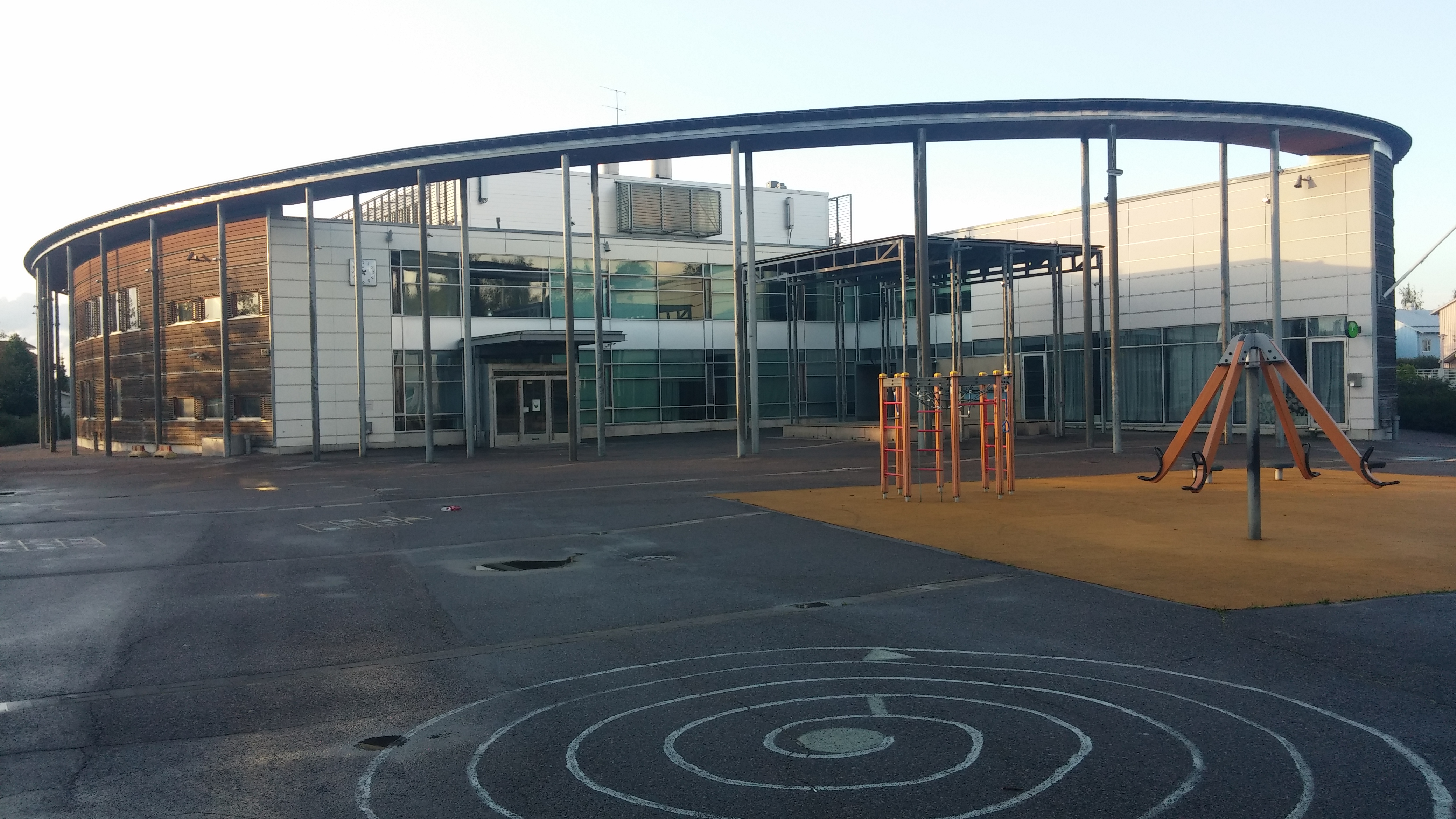 School in Helsinki, Finland.